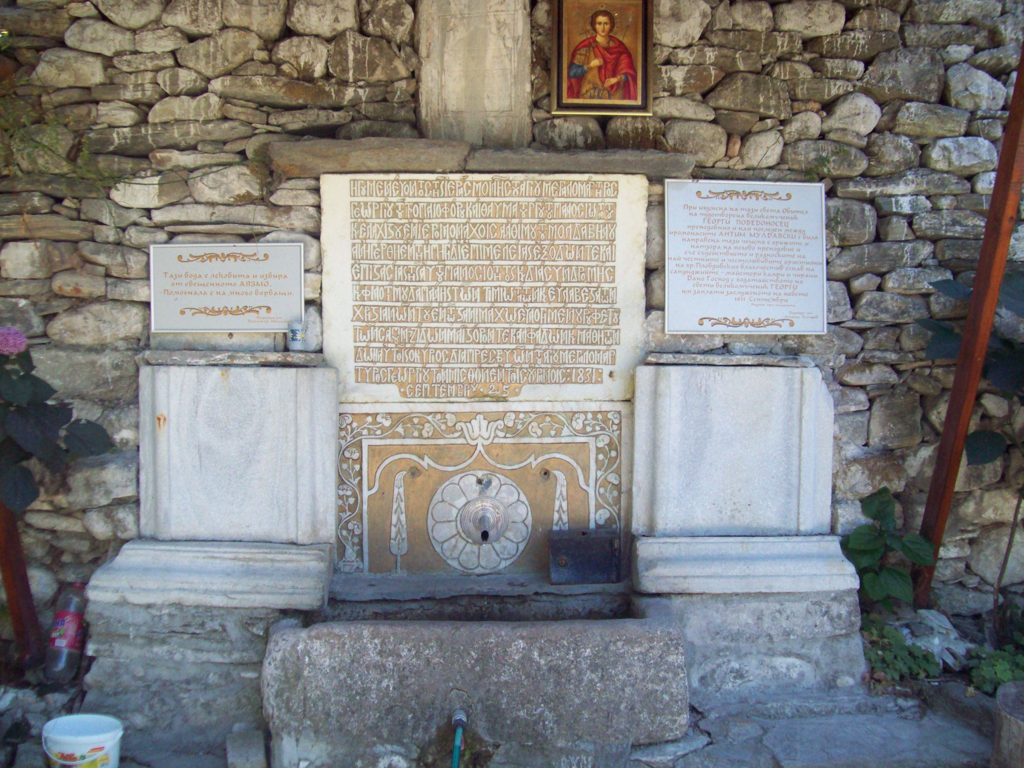 The drinking fountain in Belashtitsa Monastery, Bulgaria